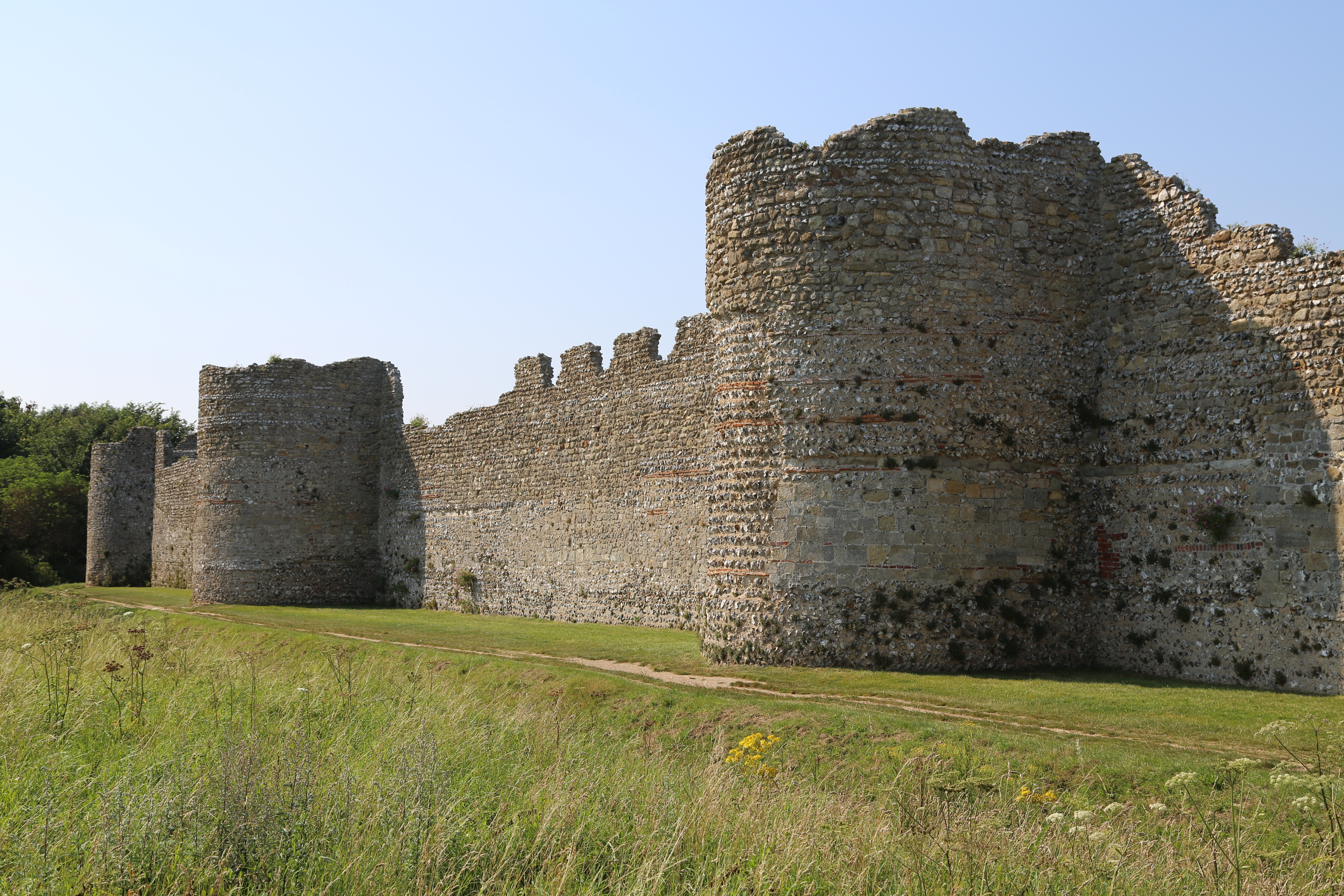 Photo of part the southern wall of Portchester castle showing the roman D shaped towers